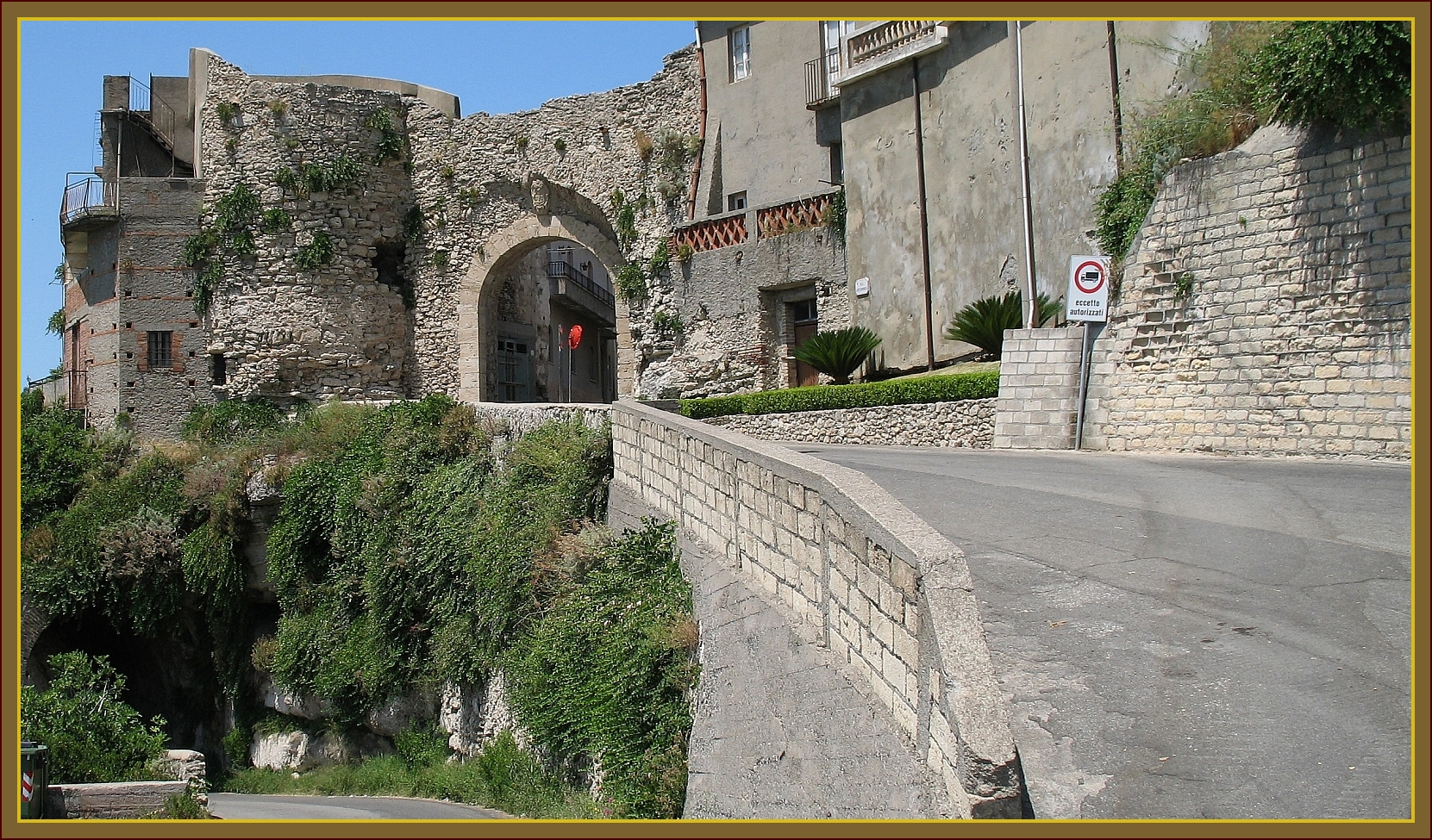 Porta Milazzo